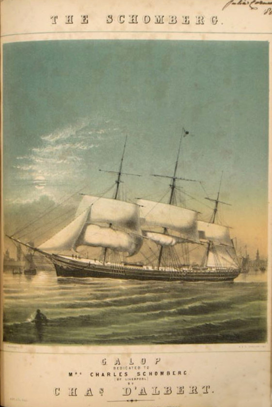 Gallop dedicated to Charles Schomberg (of Liverpool) by (composed) Charles d’Albert (1809–1896), score, with an illustration of the schooner Schomberg on the cover, 1855, bought and signed in 1858.